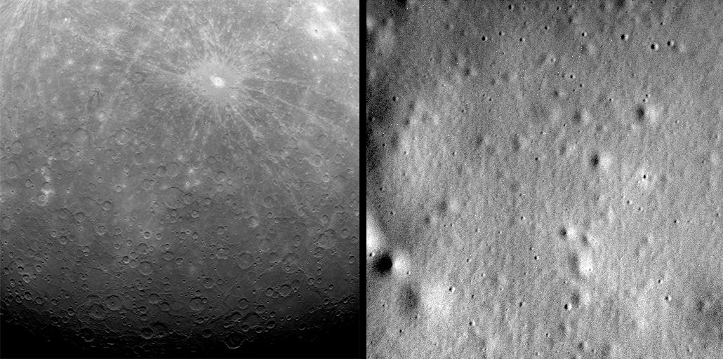 PIA19449: From the First to the Last On March 18, 2011, MESSENGER made history by becoming the first spacecraft ever to orbit Mercury. Eleven days later, the spacecraft captured the first image ever obtained from Mercury orbit, shown here on the left. Originally planned as a one-year orbital mission, the MESSENGER spacecraft orbited Mercury for more than four years, accomplishing technological firsts and making new scientific discoveries about the origin and evolution of the Solar System's innermost planet. Check out the Top 10 Science Results. Dates acquired: March 29, 2011; April 30, 2015 Image IDs: 65056, 8422953 Instrument: Mercury Dual Imaging System (MDIS) Left Image Center Latitude: -53.3° Left Image Center Longitude: 13.0° E Left Image Resolution: 2.7 kilometers/pixel Left Image Scale: The rayed crater Debussy has a diameter of 80 kilometers (50 miles) Right Image Center Latitude: 72.0° Right Image Center Longitude: 223.8° E Right Image Resolution: 2.1 meters/pixel Right Image Scale: This image is about 1 kilometers (0.6 miles) across On April 30, 2015, MESSENGER again made history, becoming the first spacecraft to impact the planet. In total, MESSENGER acquired and returned to Earth more than 277,000 images from orbit about Mercury. The last of those images is shown here on the right. As the first spacecraft ever to orbit Mercury, MESSENGER revolutionized our understanding of the Solar System's innermost planet. View image highlights from the MESSENGER mission in this image collection.